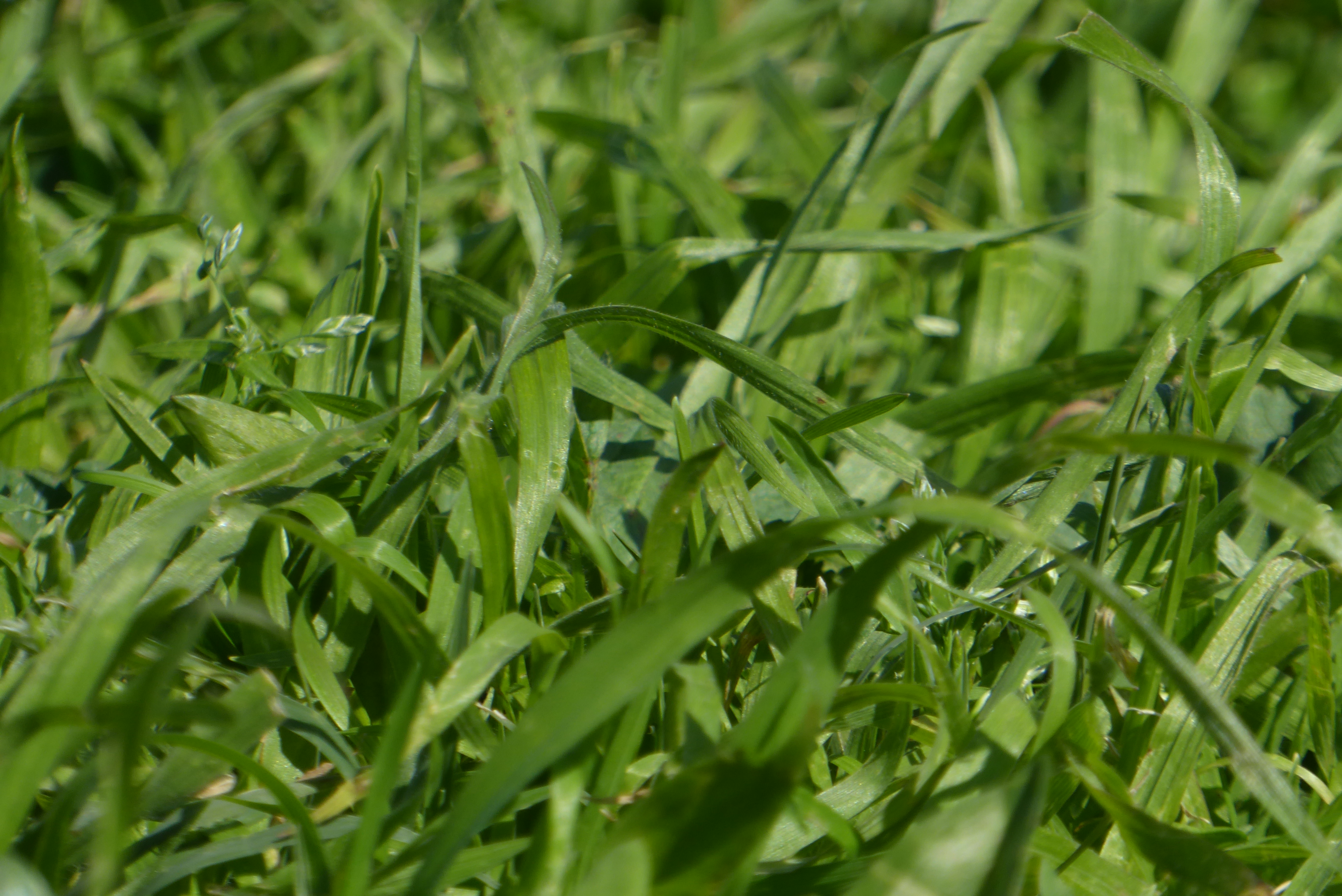 Flora of Israel